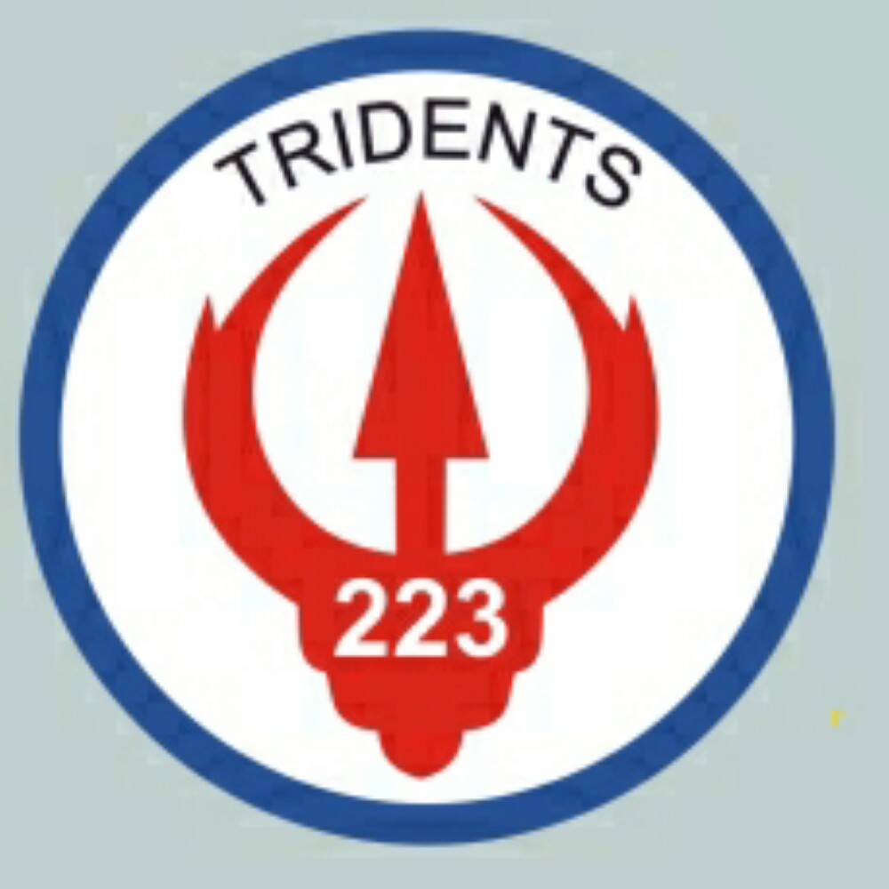 Standard logo used on Squadron's aircraft.